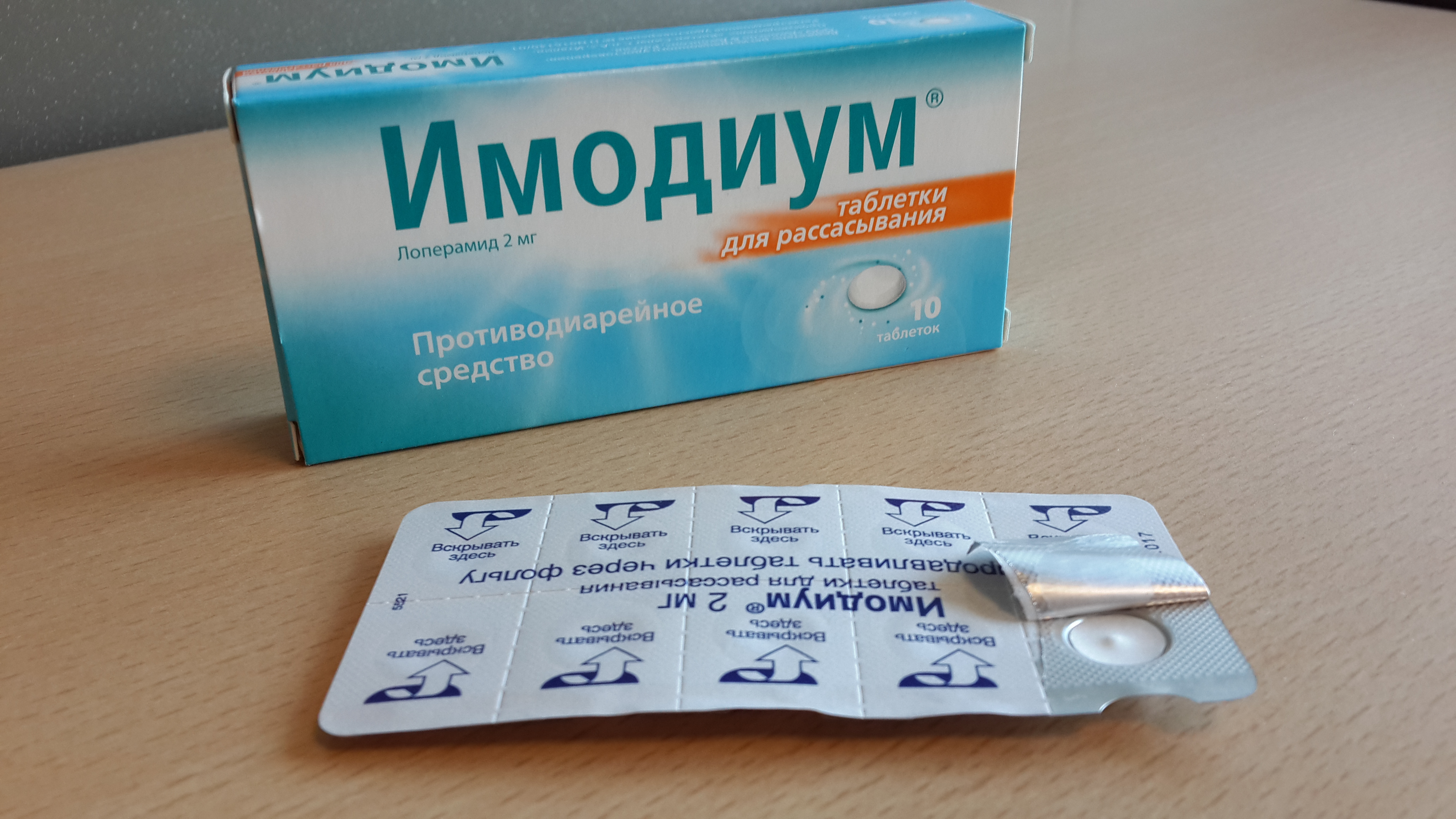 Imodium (Loperamide)